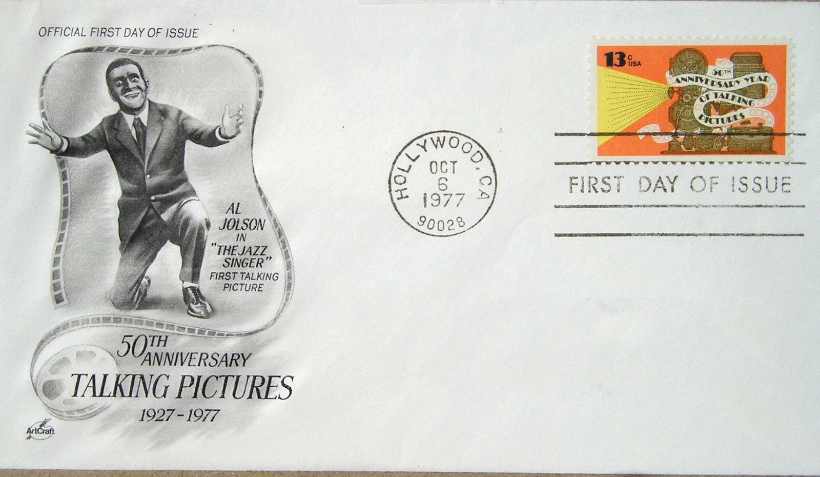 First Day Cover for Talking Pictures 50th anniversary illustrating Al Jolson, issued in 1977 - address has been excised